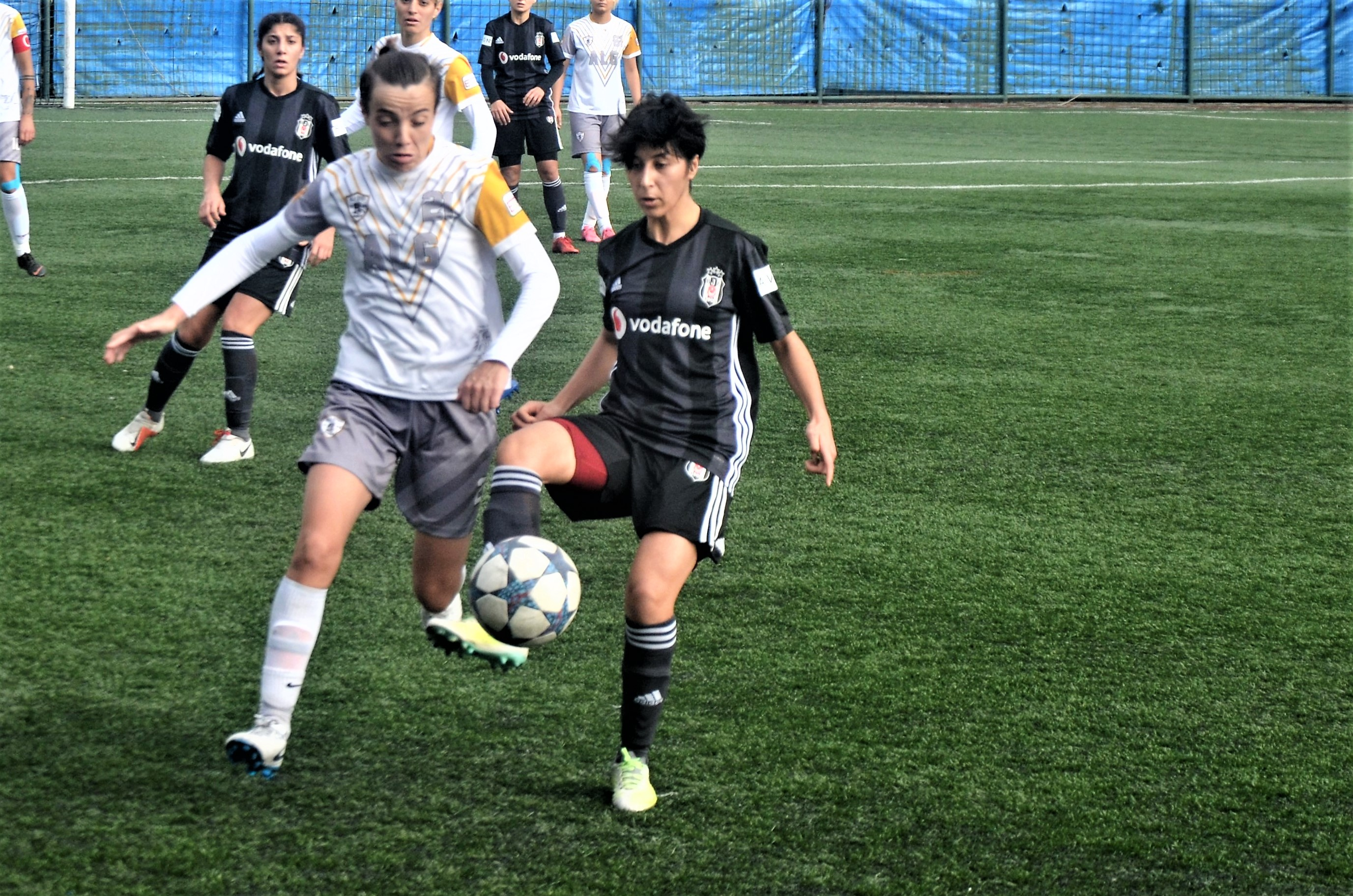 Elif Keskin of Beşiktaş J.K. (women's football)in the 2018-19 Turkish First Football League season's home match against ALG Spor